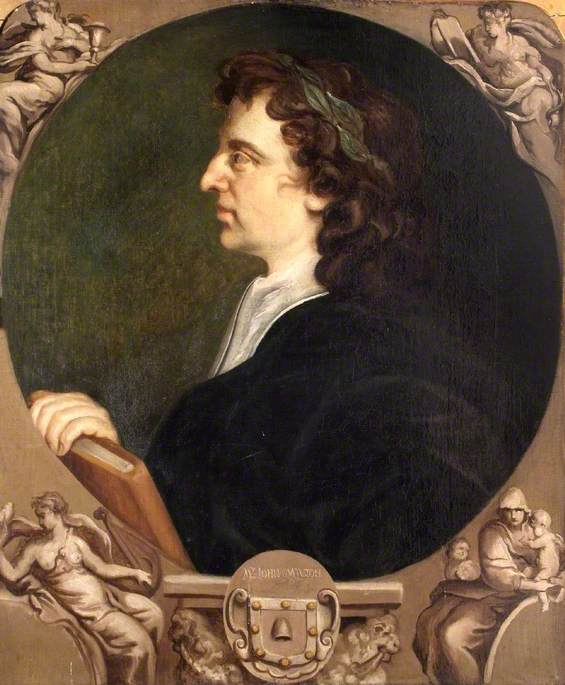 Portrait of John Milton (1608-1674)